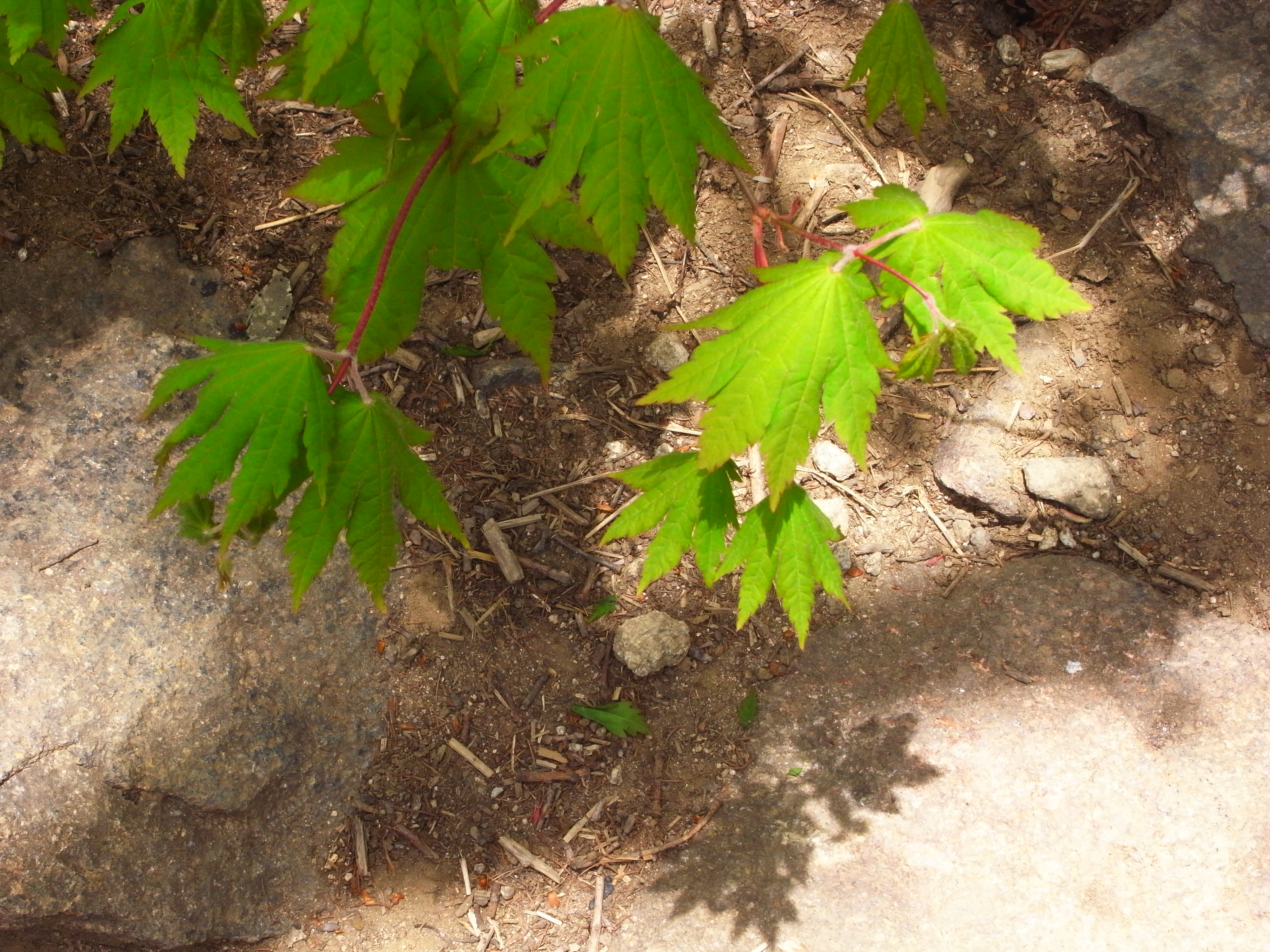 Acer pseudosieboldianum at Jirisan mountain, Korea